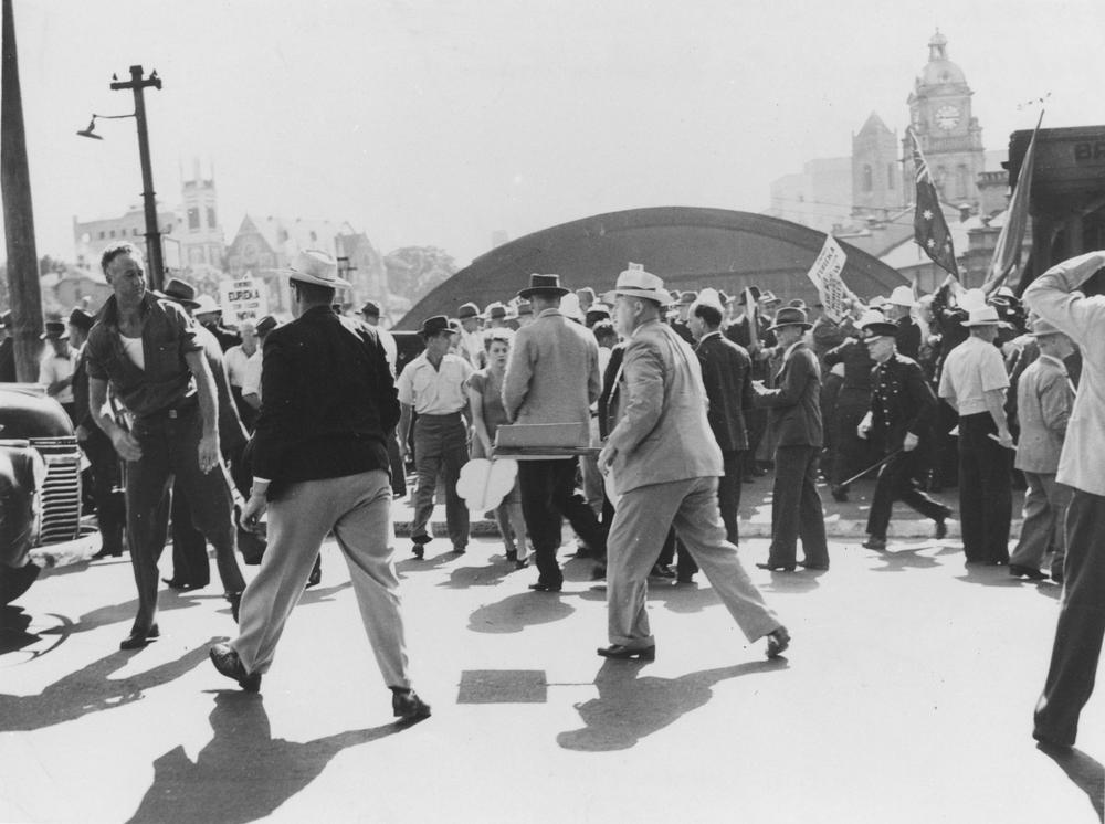 Railway Workers' strike, Brisbane, 1948 This image shows the original confrontation on St. Patricks Day, 1948 as the procession moved from Brisbane Trades Hall, down Edward St. at the top of the old station entrance to Central Station. Pictured left to right: Jack Grayson (S.P & Dockers Union), Jean O'Connor Policeman, Max Julius (Communist Barrister) Rhodes Scholar (with hat on), Mahoney (Brisbane C.I.B), Inspector of Police, others unknown, (Description supplied with photograph.).